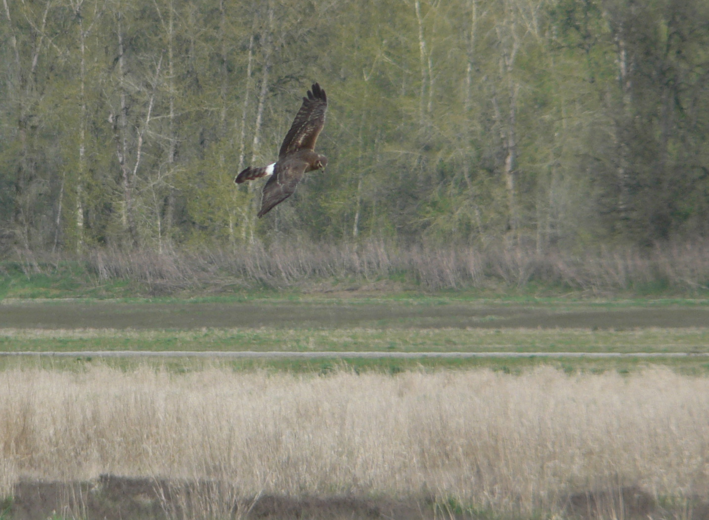 Northern Harrier